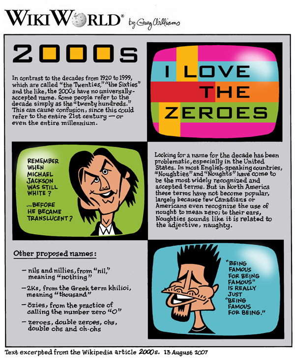 WikiWorld comic based on the article "2000s". See also Zoos.